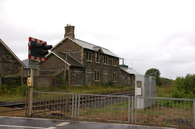 Cromore station near Portstewart. The line from Coleraine to Portrush opened in 1855. There was an intermediate station called “Portstewart” although it was some distance from the town it was supposed to serve. The town was connected to the station by a steam tram from 1882 to 1926. After closure of the tramway the station saw few passengers eventually closing in 1963. It re-opened as “Cromore” in 1969 finally closing again in 1988. The station building has been sold and is now a private house.